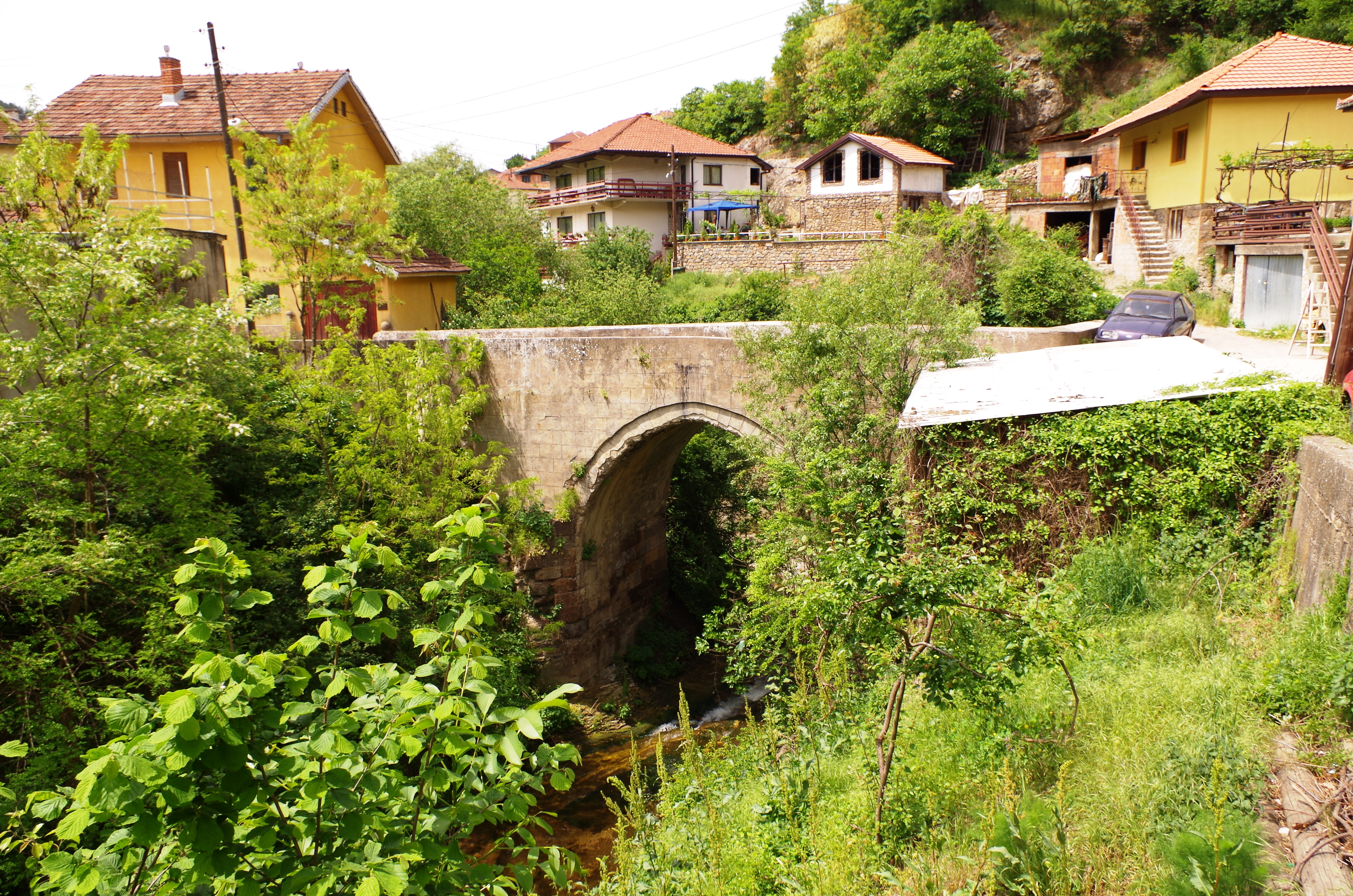 Gornoamamski Bridge in Kratovo